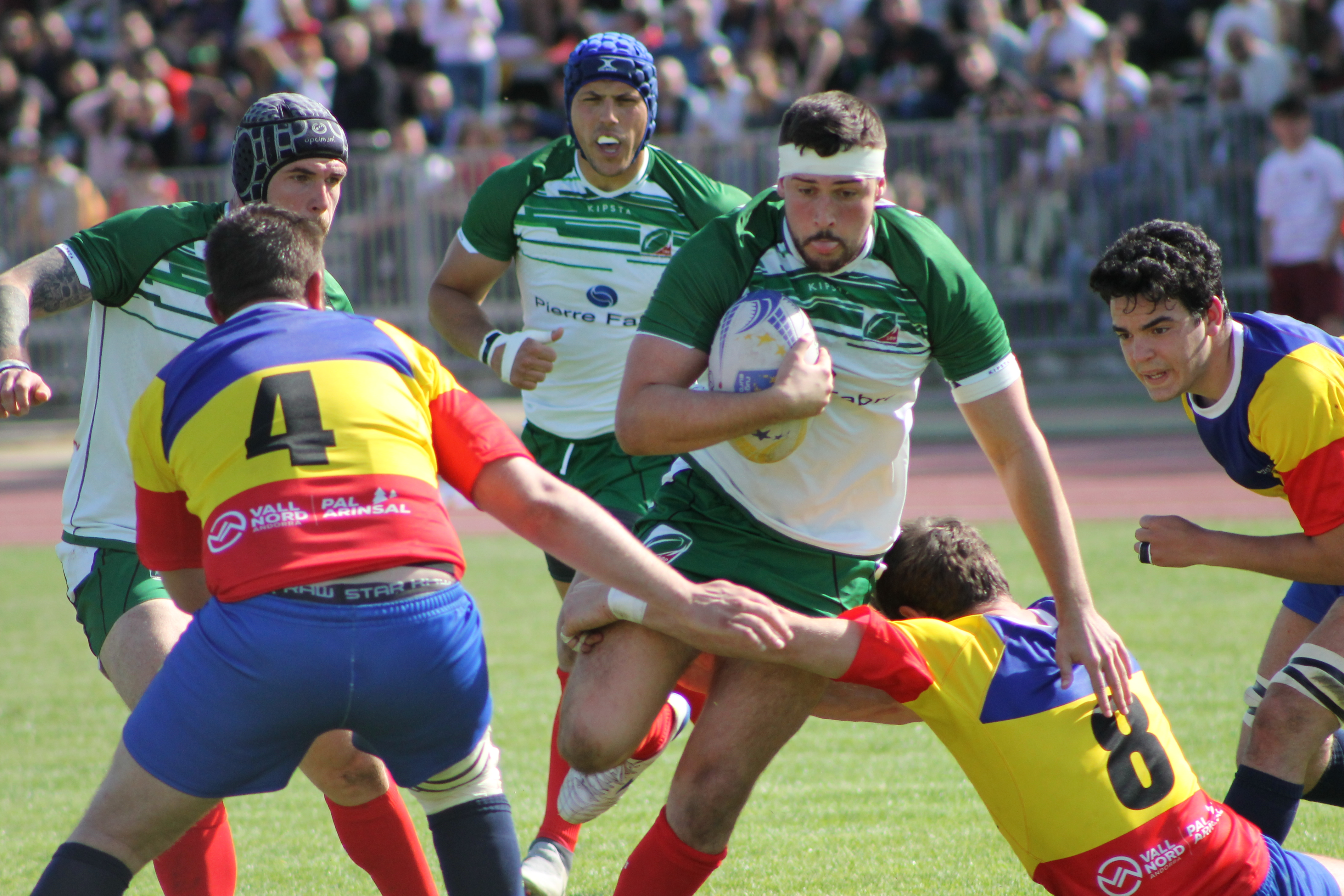 Photo from the match between the teams of Bulgaria and Anfora.